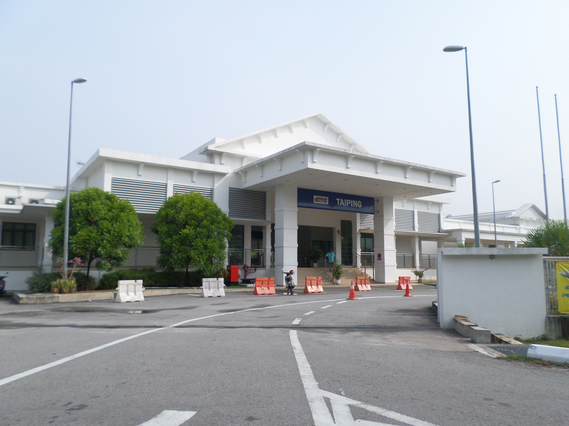 Taiping Railway Station, Taiping, Larut, Matang and Selama, Perak, Malaysia